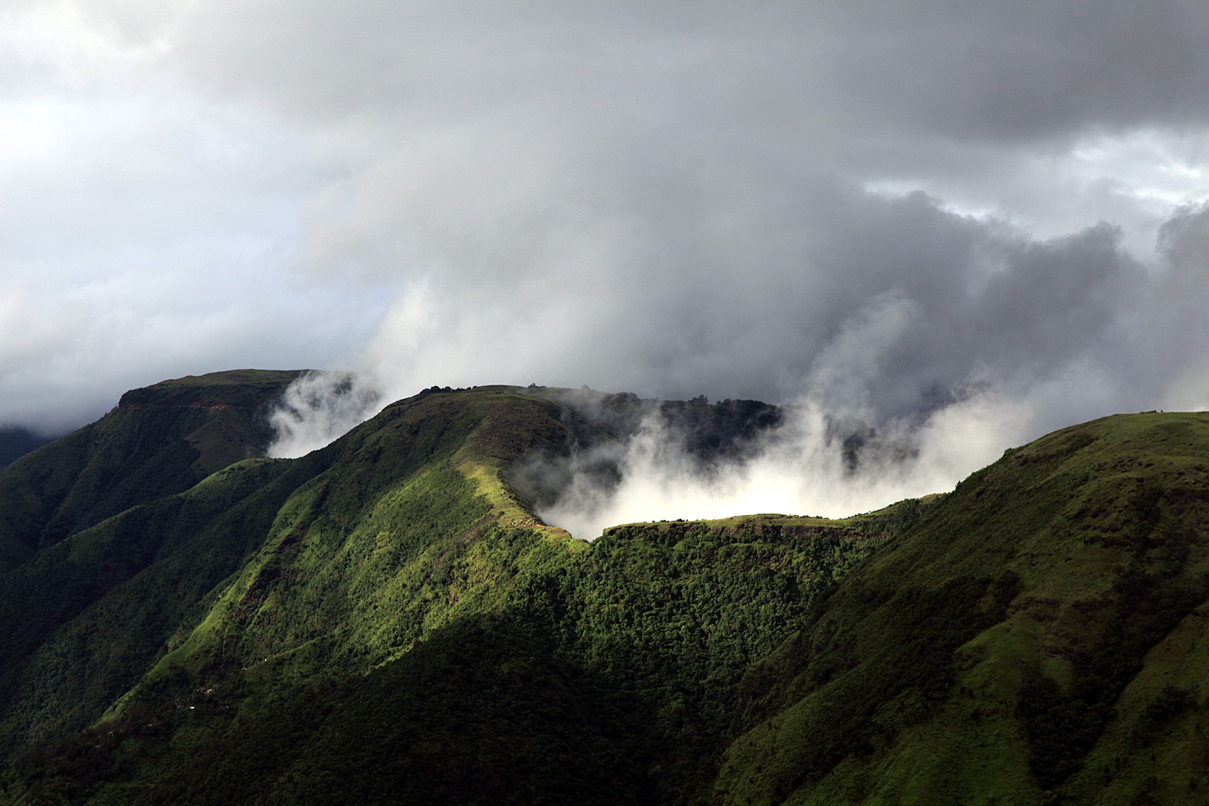 Scenic nature life geography of Meghalaya